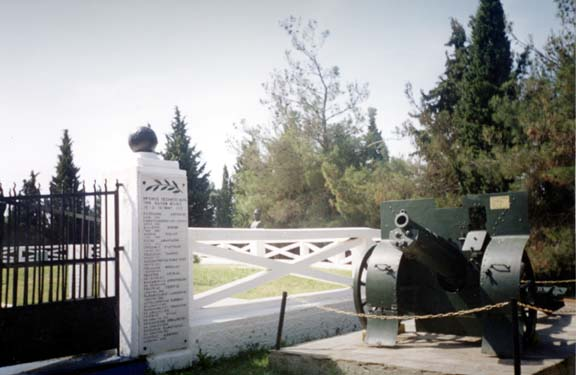 Artillery of the Balkan wars, image from the War Museum, Kilkis, Central Macedonia, Greece